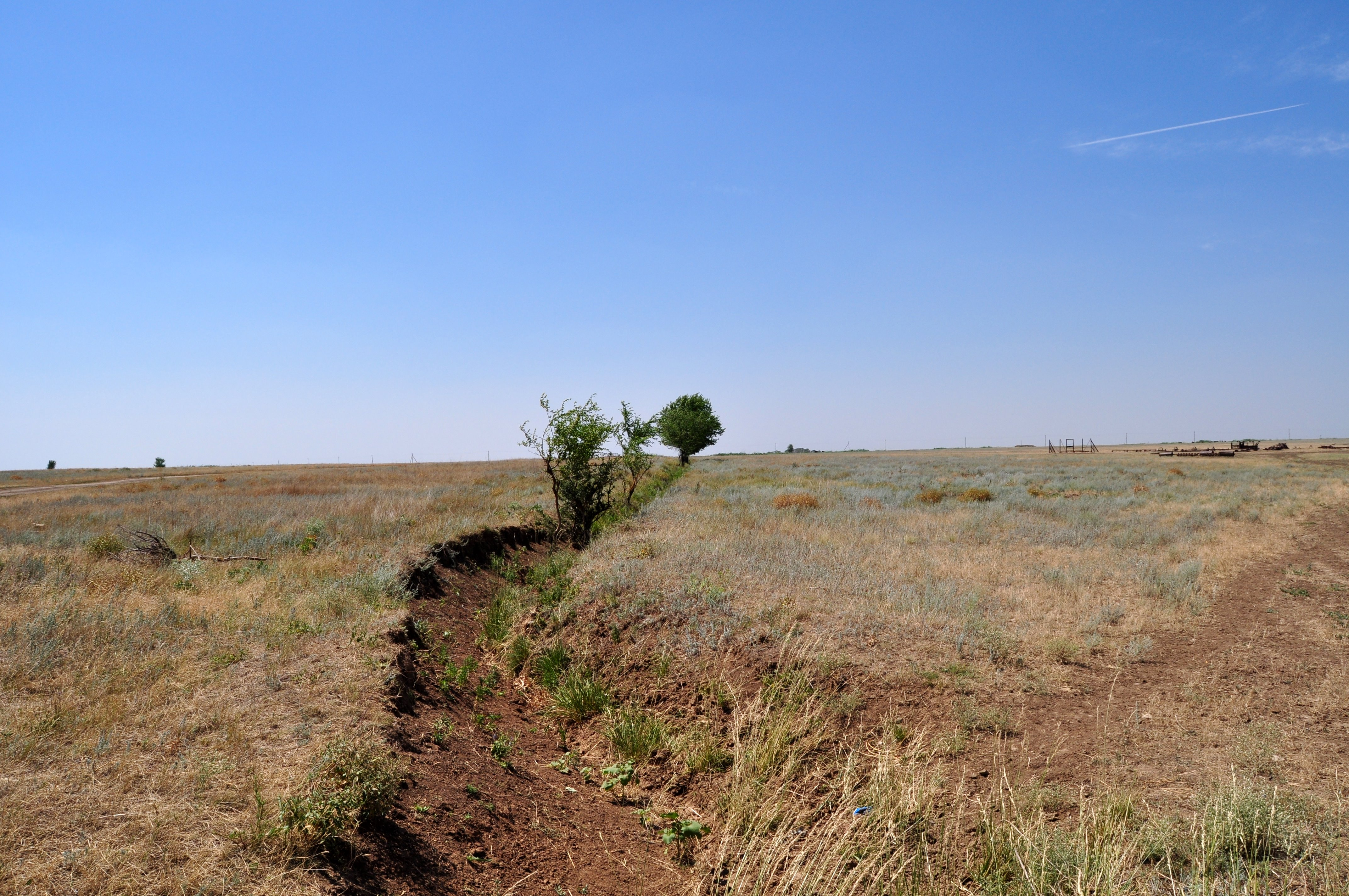 Steppe in Zimovnikovskogo district of Rostov region